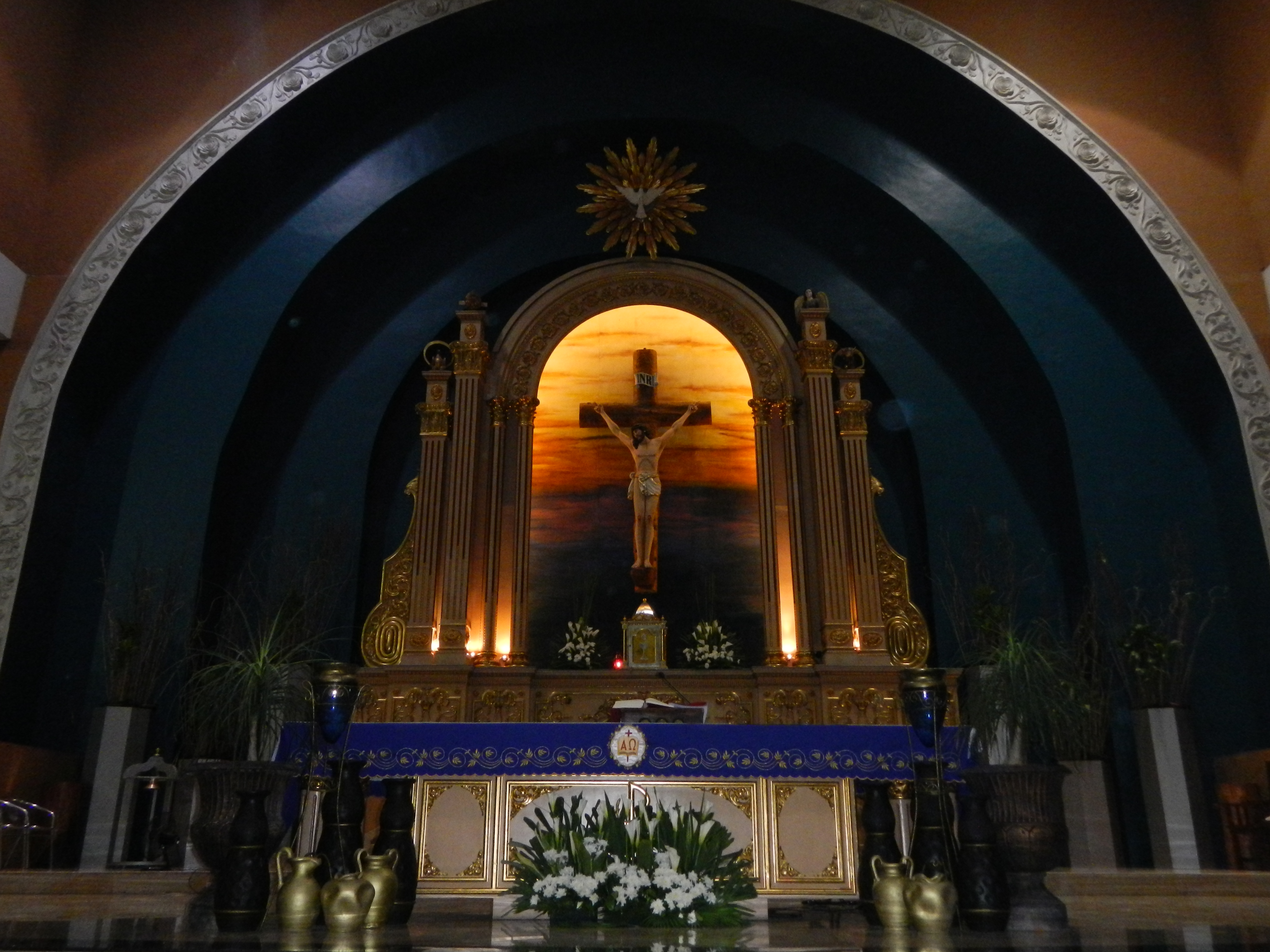 Shrine of St. Therese, Doctor of the Church[1]Newport Blvd, Bgy. 183, Zone 20 Villamor, Pasay City 1100 The Shrine of St. Therese of the Child Jesus[2]Thérèse of Lisieux, Doctor of the Church was built as a Diocesan Shrine of the Military Ordinariate of the Philippines[3]. It is a structure covering an area of a little more than a hectare, located along Manlunas St., Pasay City, Philippines in front of the main entrance of the NAIA Terminal III.[4]Manlunas St., Villamor Airbase[5]Coordinates: 14°31'16"N 121°0'57"E[6][7]t. Therese relics returns to PH [8]Thousands flock to greet St Therese's relics